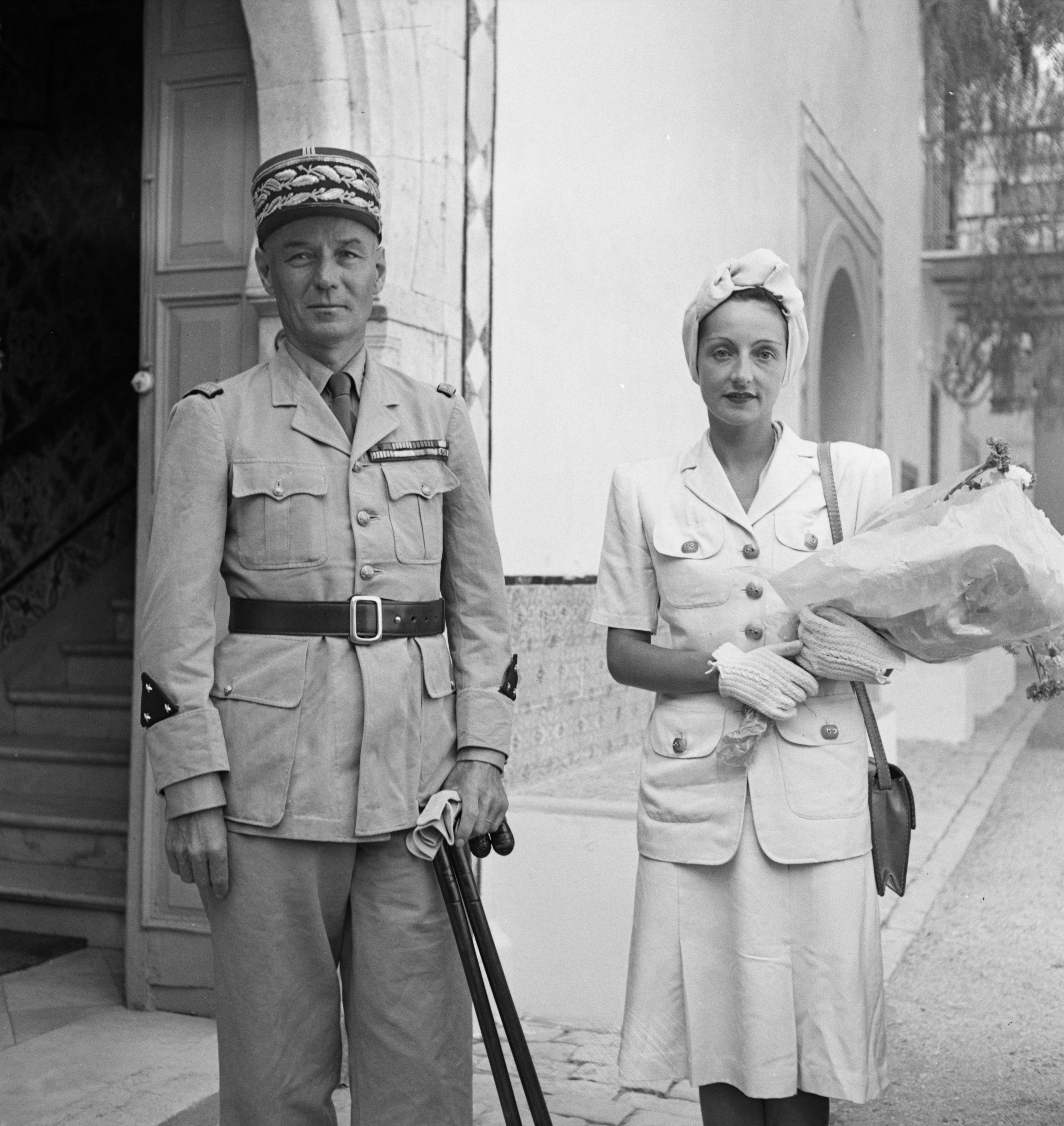 General and Madame Mast. General Mast is the new resident general of Tunisia.